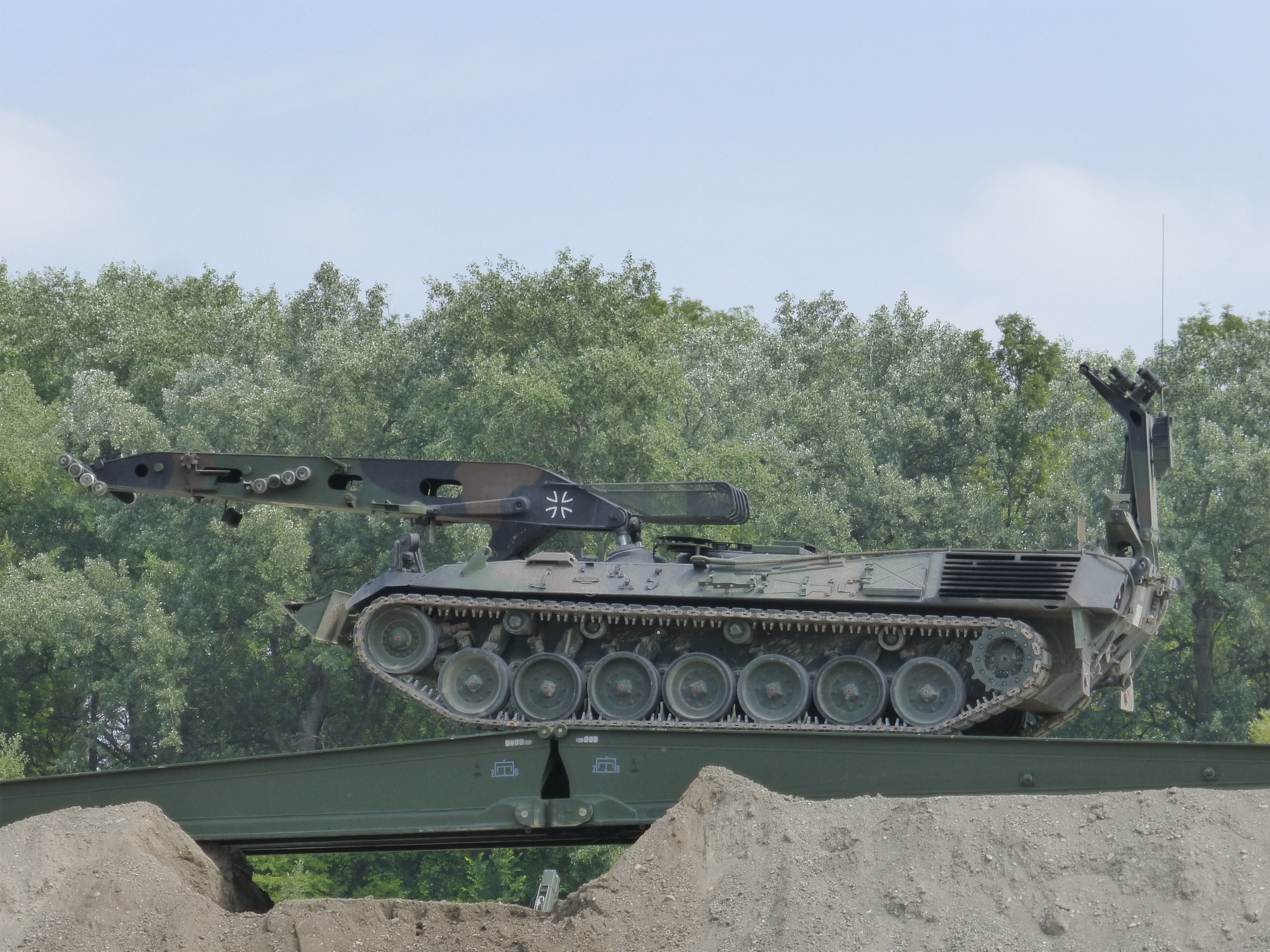 Armoured Bridge Layer "Biber" at the "Day of the Bundeswehr 2018" in Ingolstadt, Bavaria